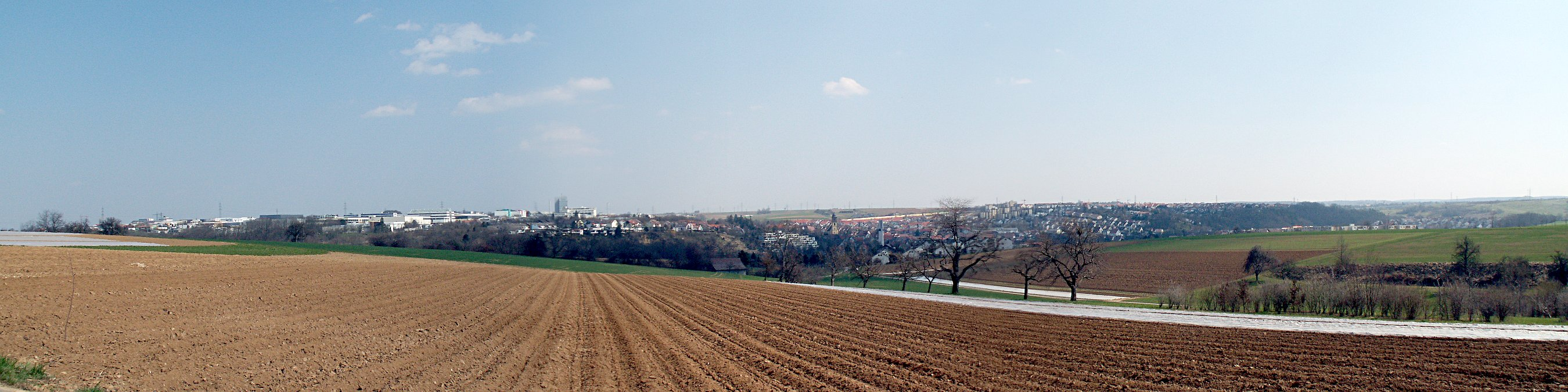 This picture shows the panorama of Schwieberdingen in Germany from the north-west perspective